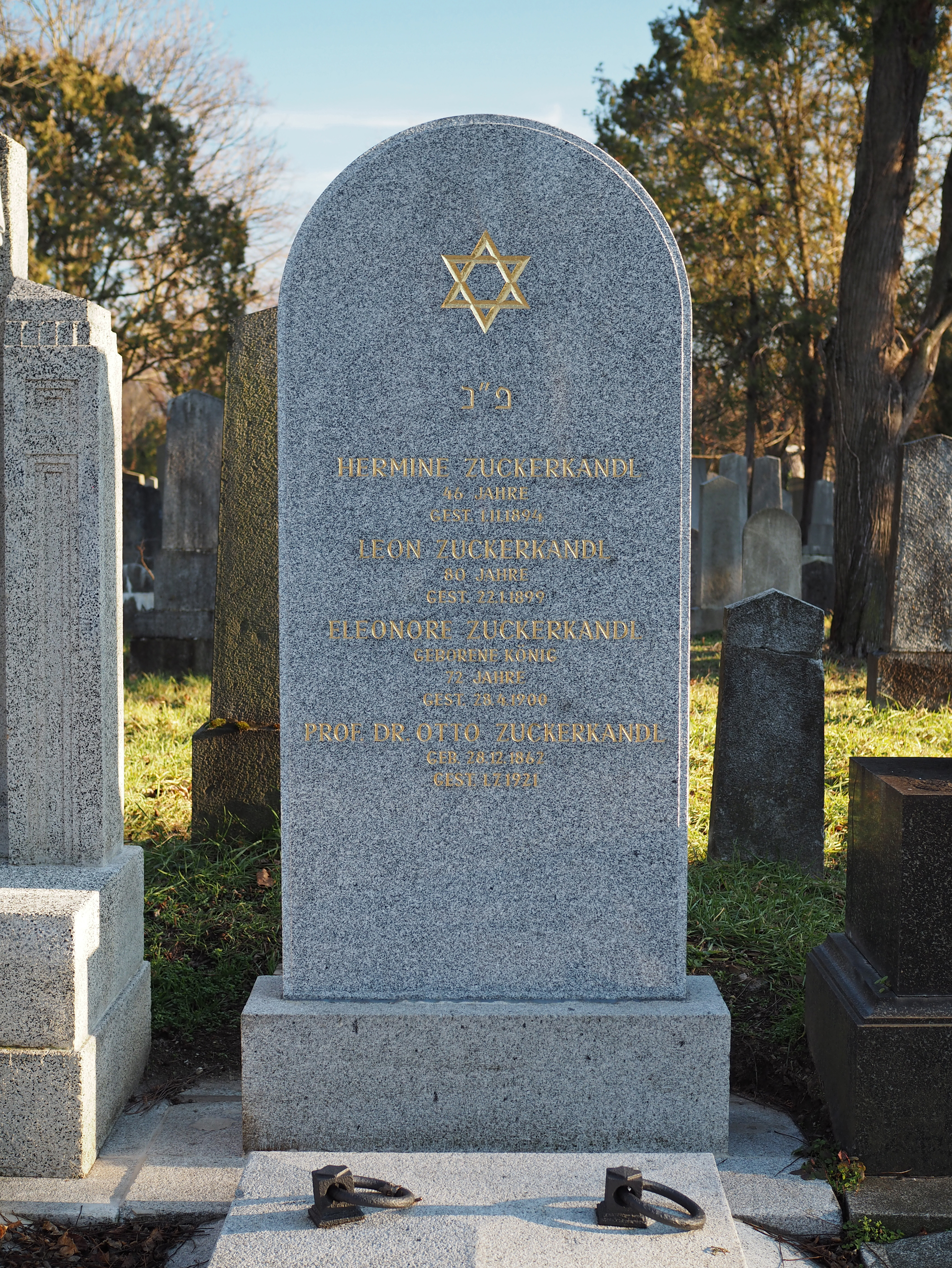 Grave of the urologist and surgeon Otto Zuckerkandl, of his parents Leon Zuckerkandl and Eleonore Zuckerkandl (née König), and of Hermine Zuckerkandl in the Old Jewish part of the Vienna Central Cemetery (8/1/46).